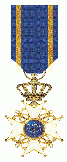 Order of the Dutch Lion